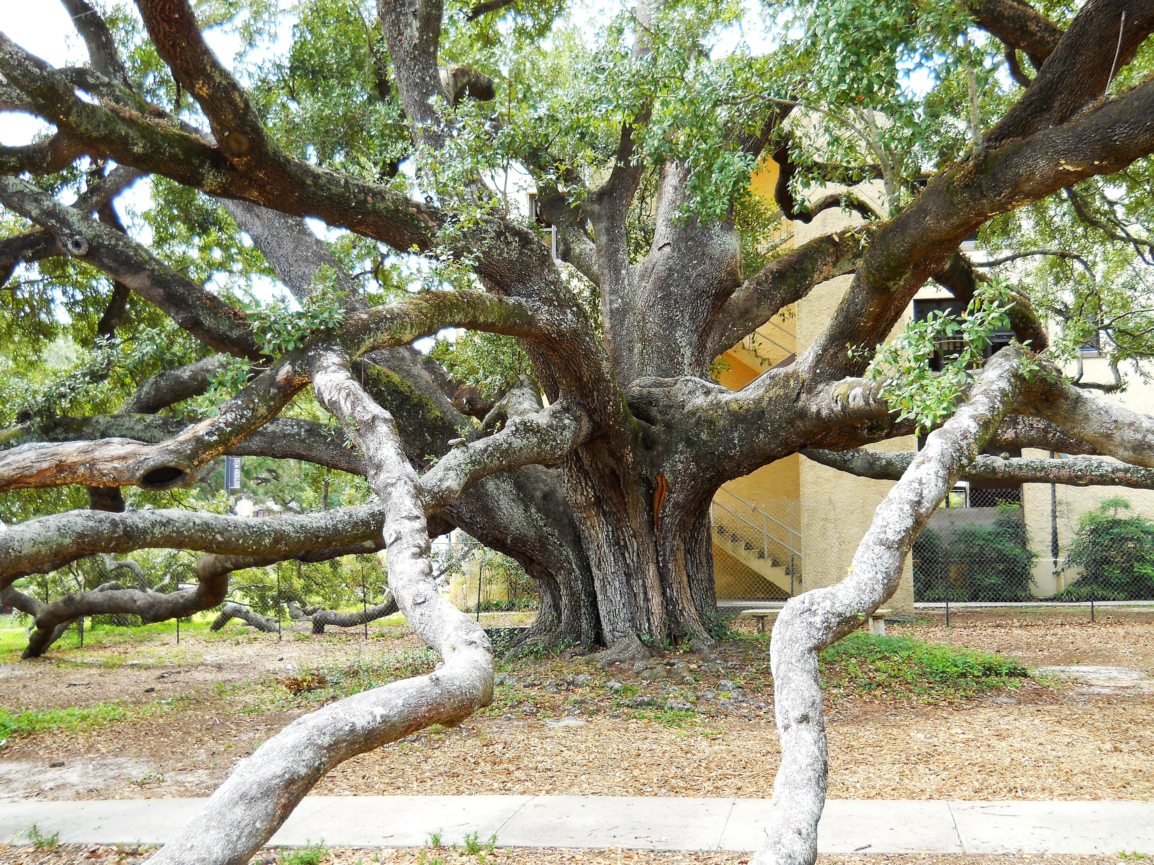 Limb structure of Friendship Oak, Long Beach, Harrison County, Mississippi, USA